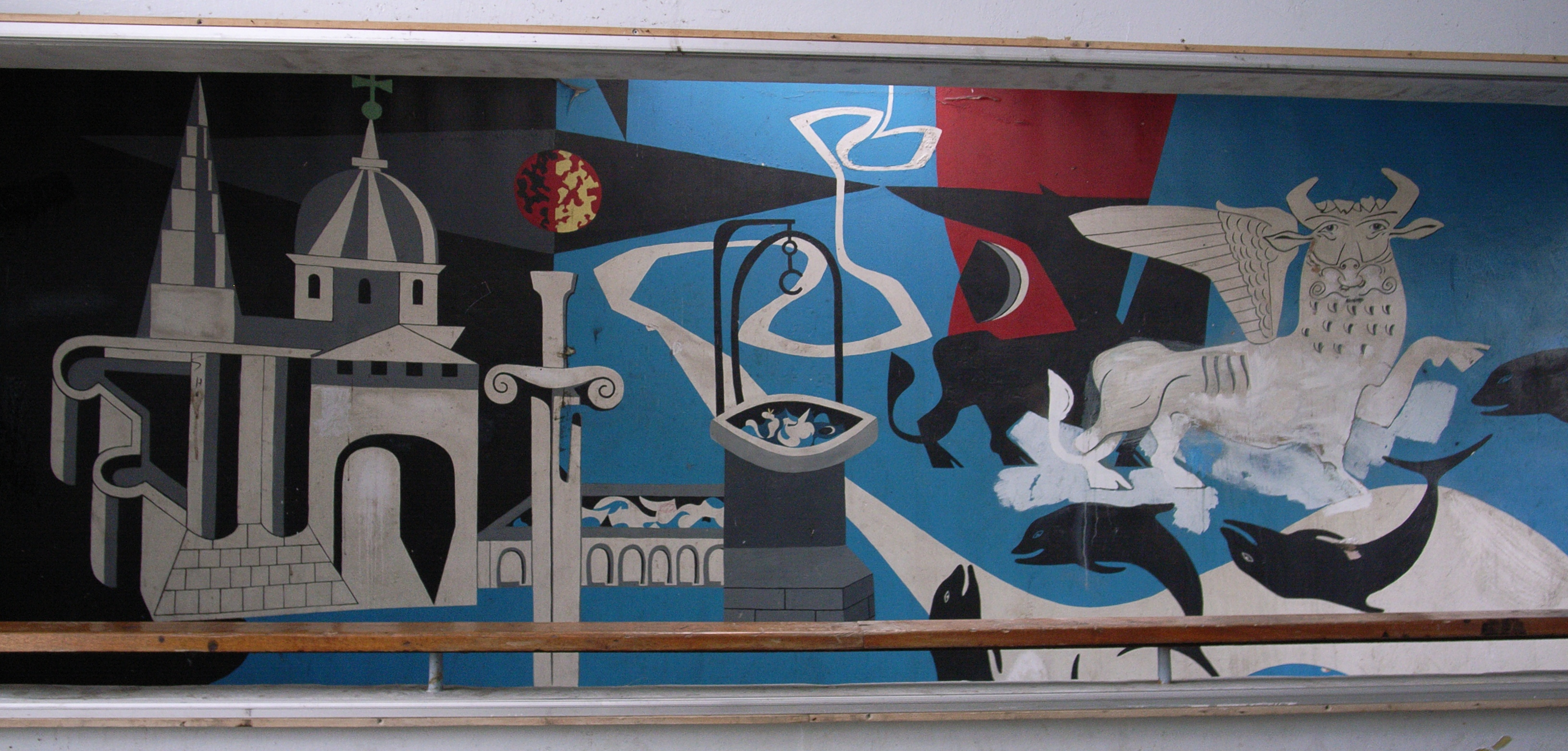 Mural by Peter Yates in Bevin Court (1946-54) by Berthold Lubetkin and Tecton Photo taken on a tour of the City Fringes with the 20th Century Society on 28/02/09.